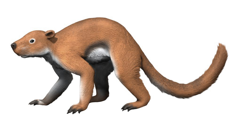 Restoration of Plesiadapis tricuspidens